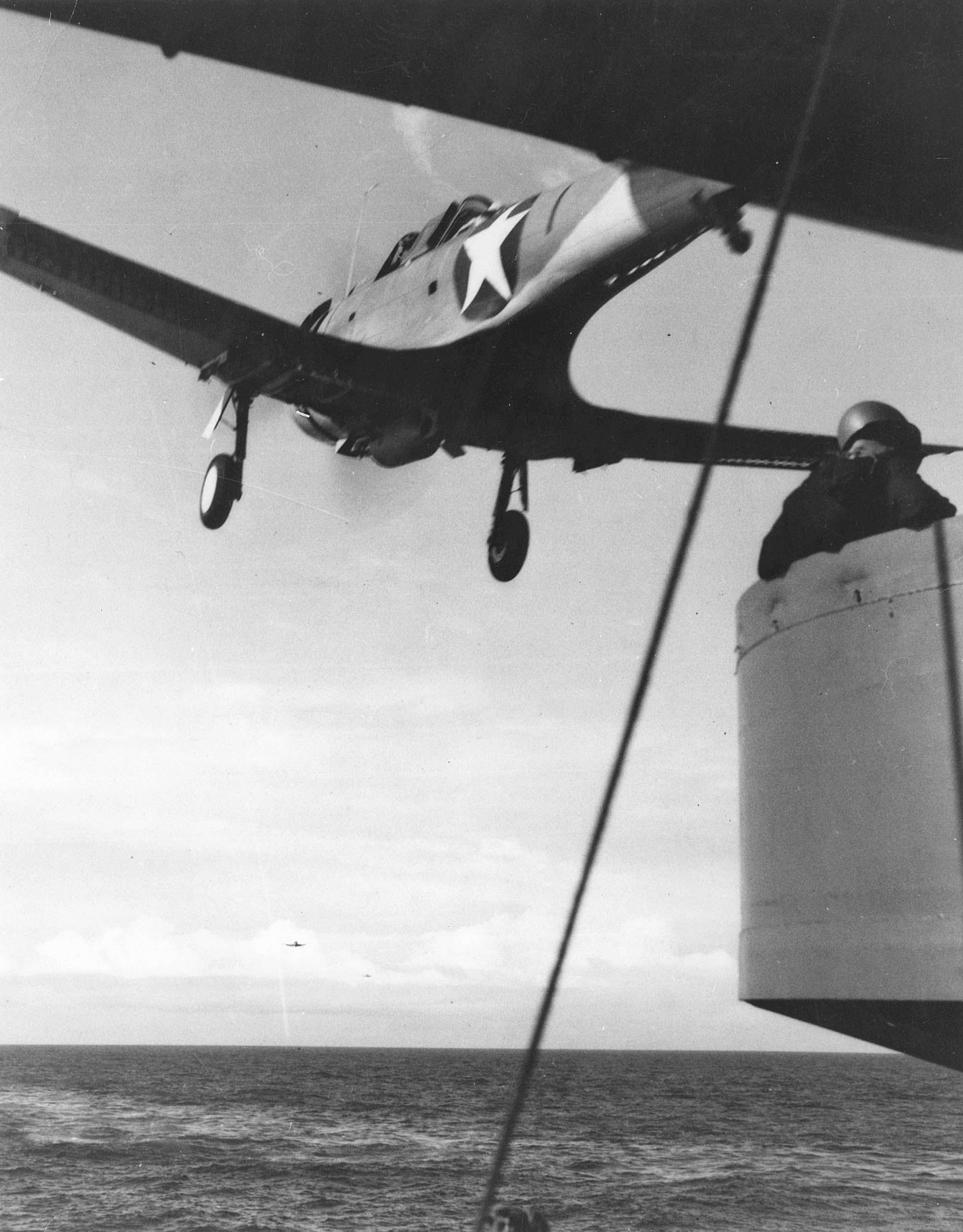 A U.S. Navy Douglas SBD-3 Dauntless of Scouting Squadron Five (VS-5) roars off the deck of USS Enterprise (CV-6) for an early morning attack against Tulagi/Guadalcanal as part of Operation Watchtower. Manning the aircraft were Lt. Turner F. Caldwell, the squadron commander, and ACRM(AA) Willard E. Glidewell. During operations off Guadalcanal, VS-5 participated in the Battle of the Eastern Solomons, and also operated from Henderson Field on Guadalcanal as part of Flight 300, a mixture of aircraft from Enterprise, during August-September 1942. Caldwell commanded Flight 300 during this time.